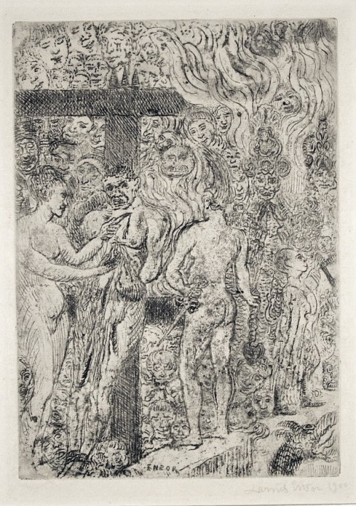 “La Reine Parysatis ecorchant un eunuque” (Queen Parysatis flaying a eunuch) an etching by James Ensor, showing Persian Queen Parysatis flaying the eunuch who killed her favorite son Cyrus the Younger during his failed rebellion